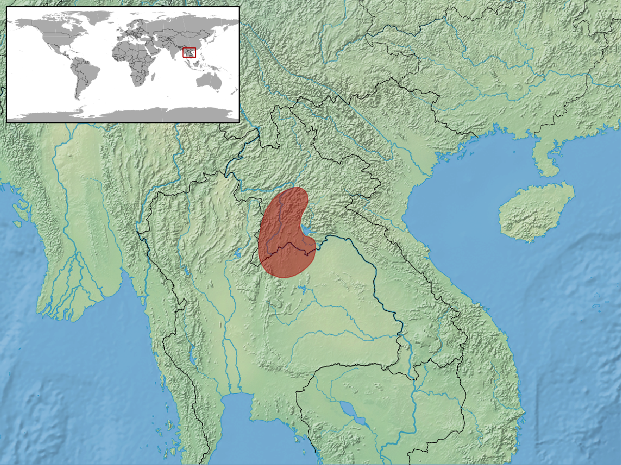 geographic distribution of Tropidophorus laotus